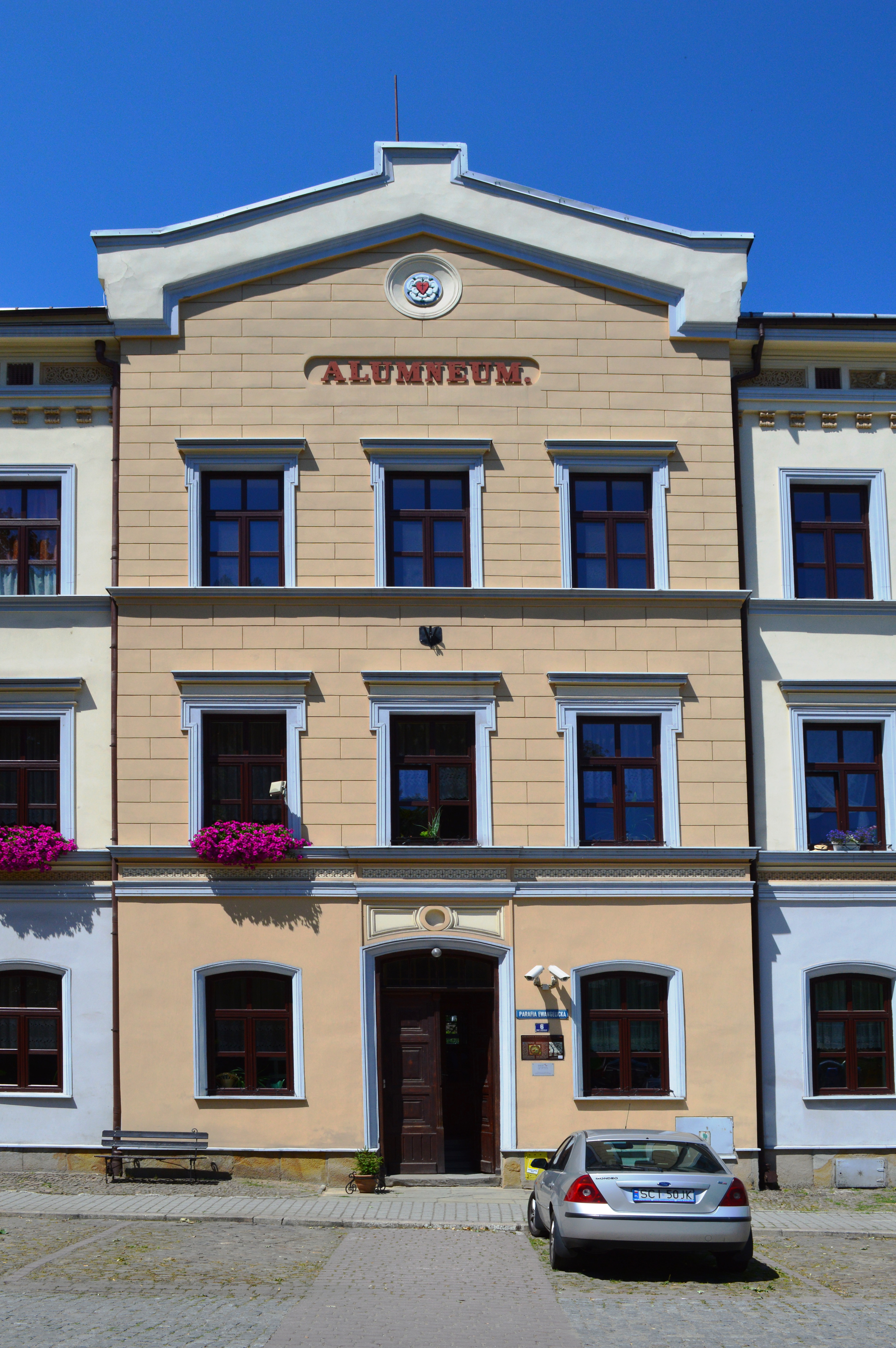 Building at 6 Kościelny Square in Cieszyn.